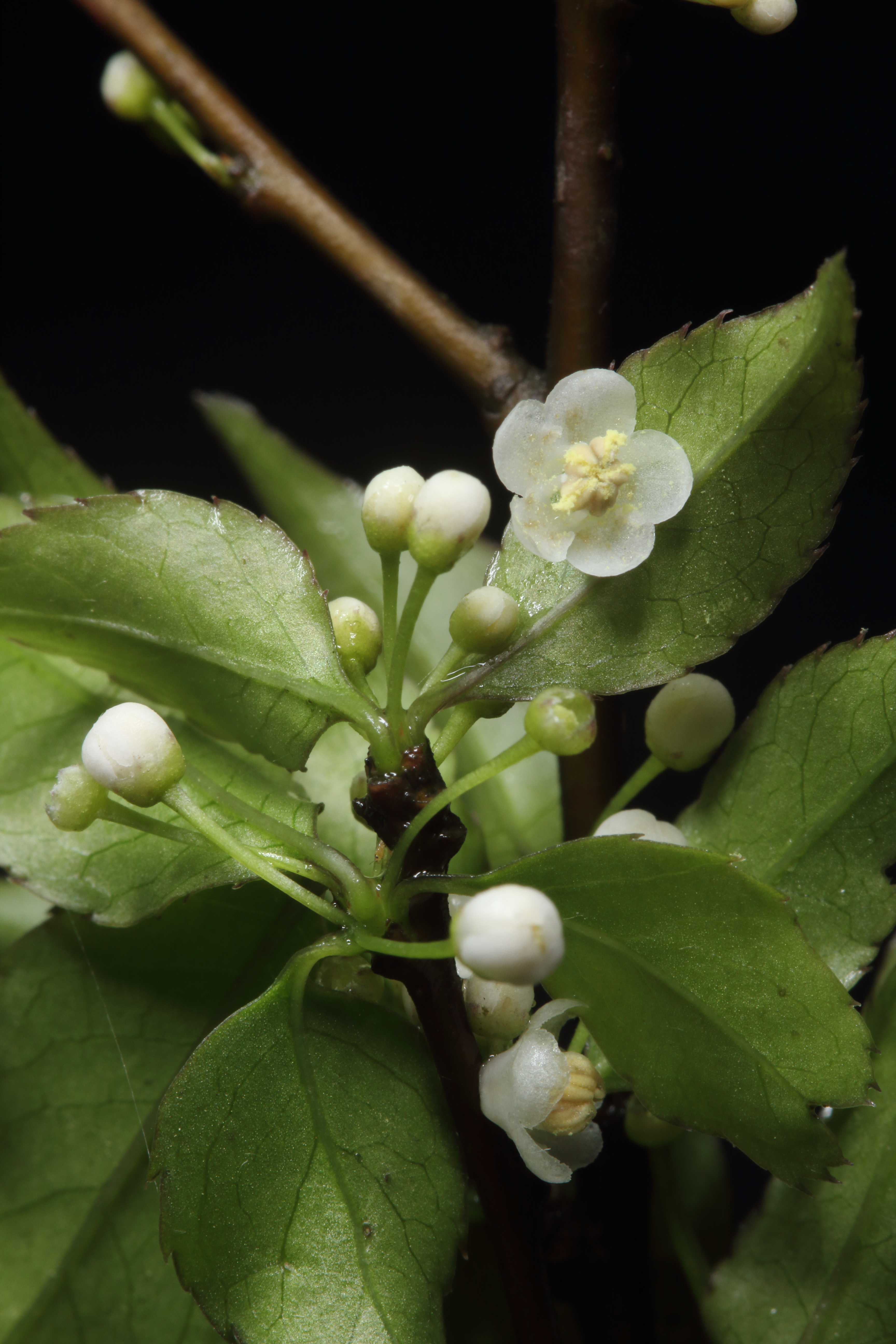 Male flower with fertile androecium.